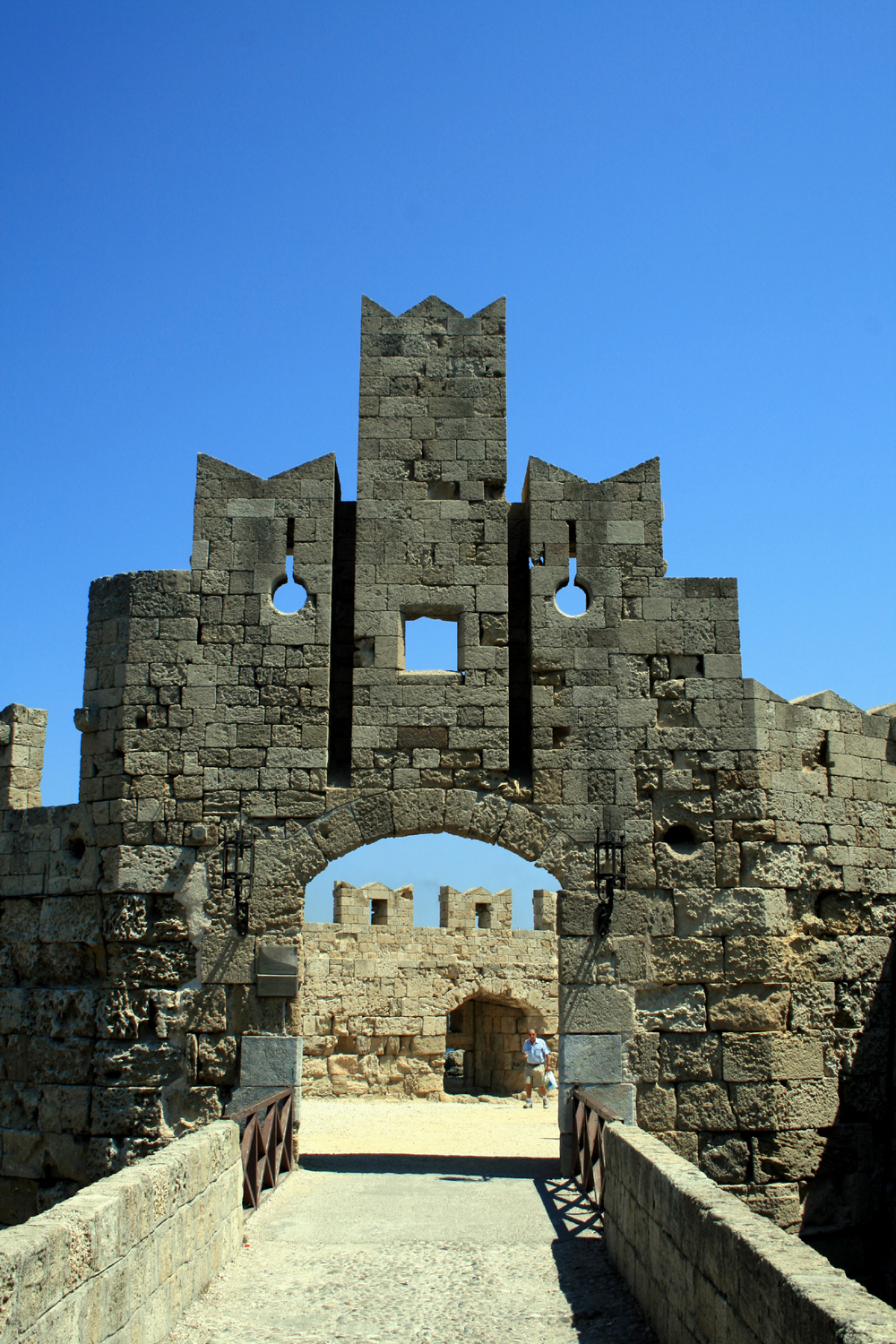 Change of old low quality photo Rhodes Old Town Fortifications Vstupní brána do starého města Rhodos Photo August 2007 Author= Karelj